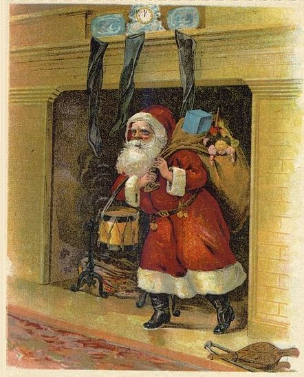 (Removed after reusableart request.)